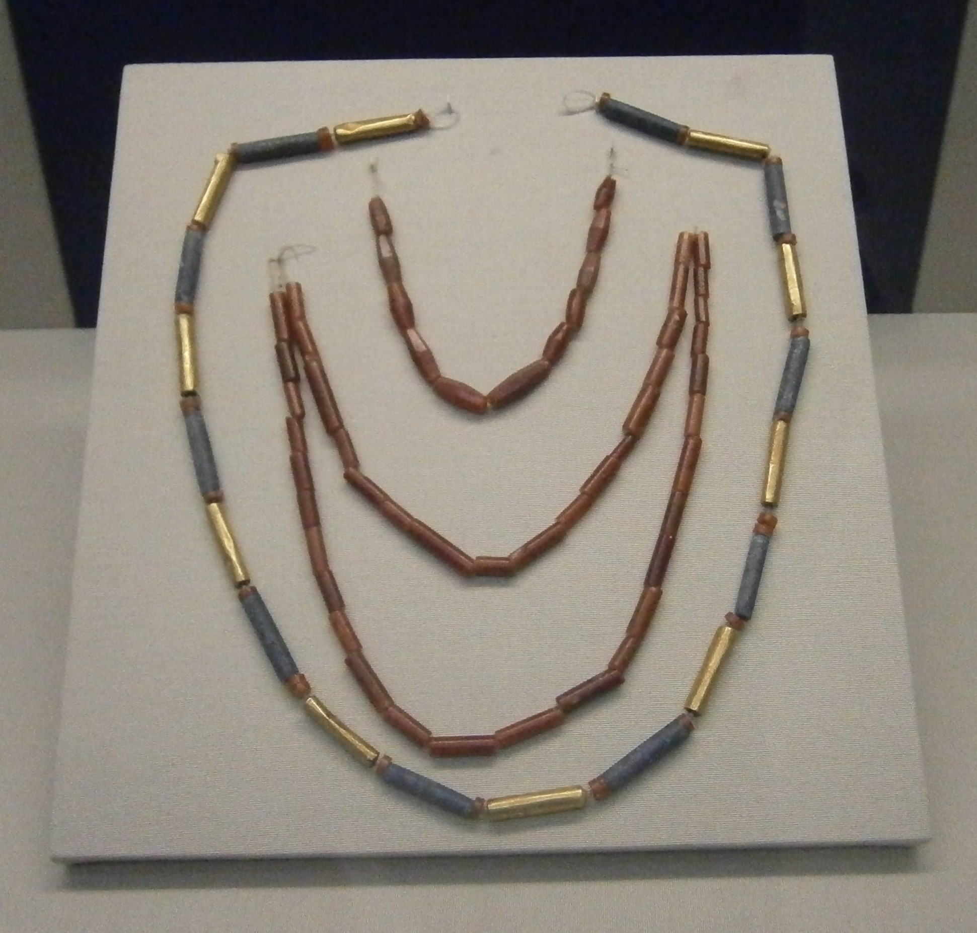 Three necklaces: two made of carnelian beads (imported from the Indus Valley) and on made of beads of bitumen covered with gold leaves alterning with lapis-lazuli beads (imported from Afghanistan). Ur, Old Babylonian Period (2000-1600 BC). ME 122425, 123152 et 123158.